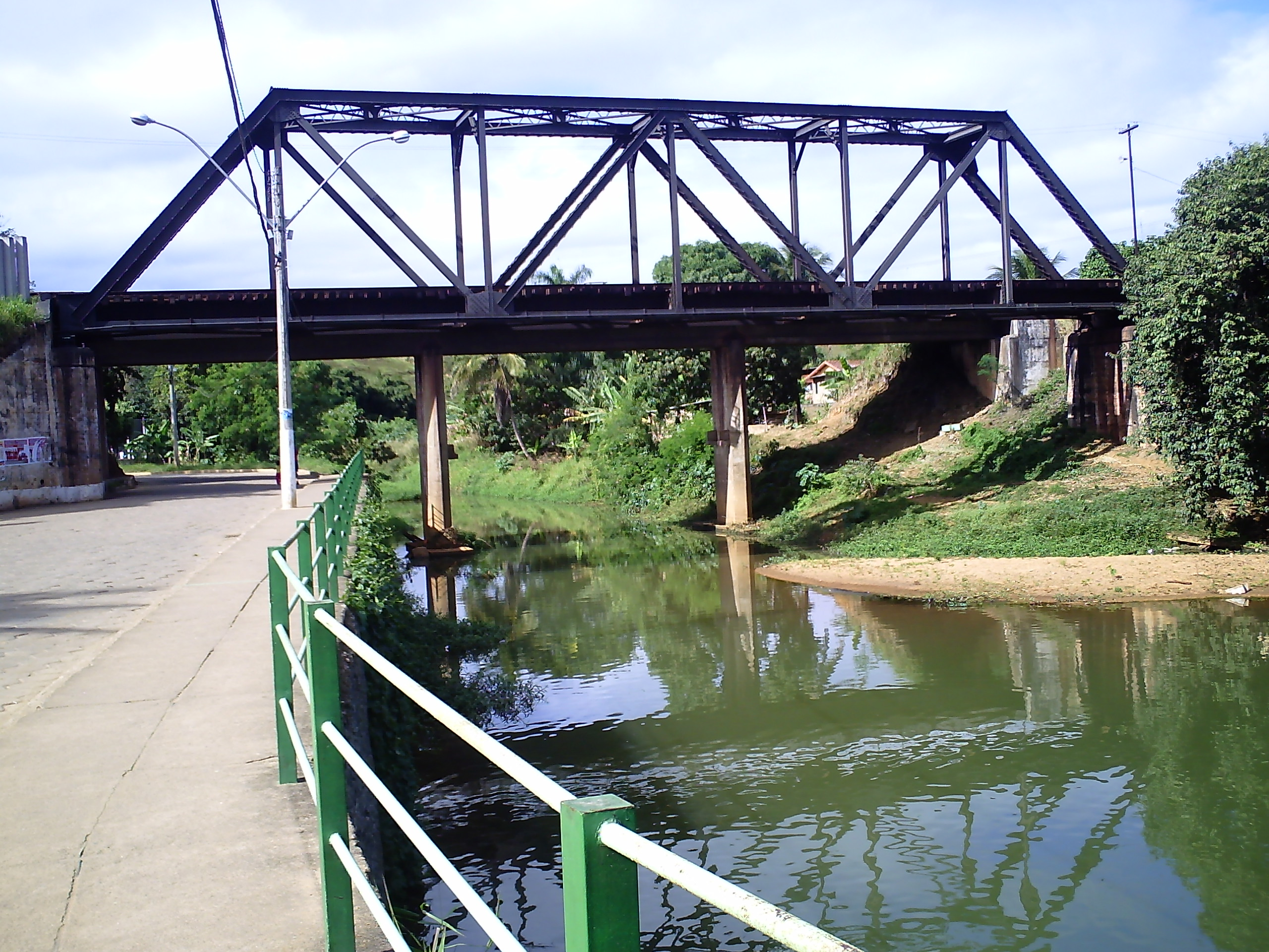 Vitória to Minas Railroad bridge over Fundão River in Fundão, Espírito Santo, Brazil.